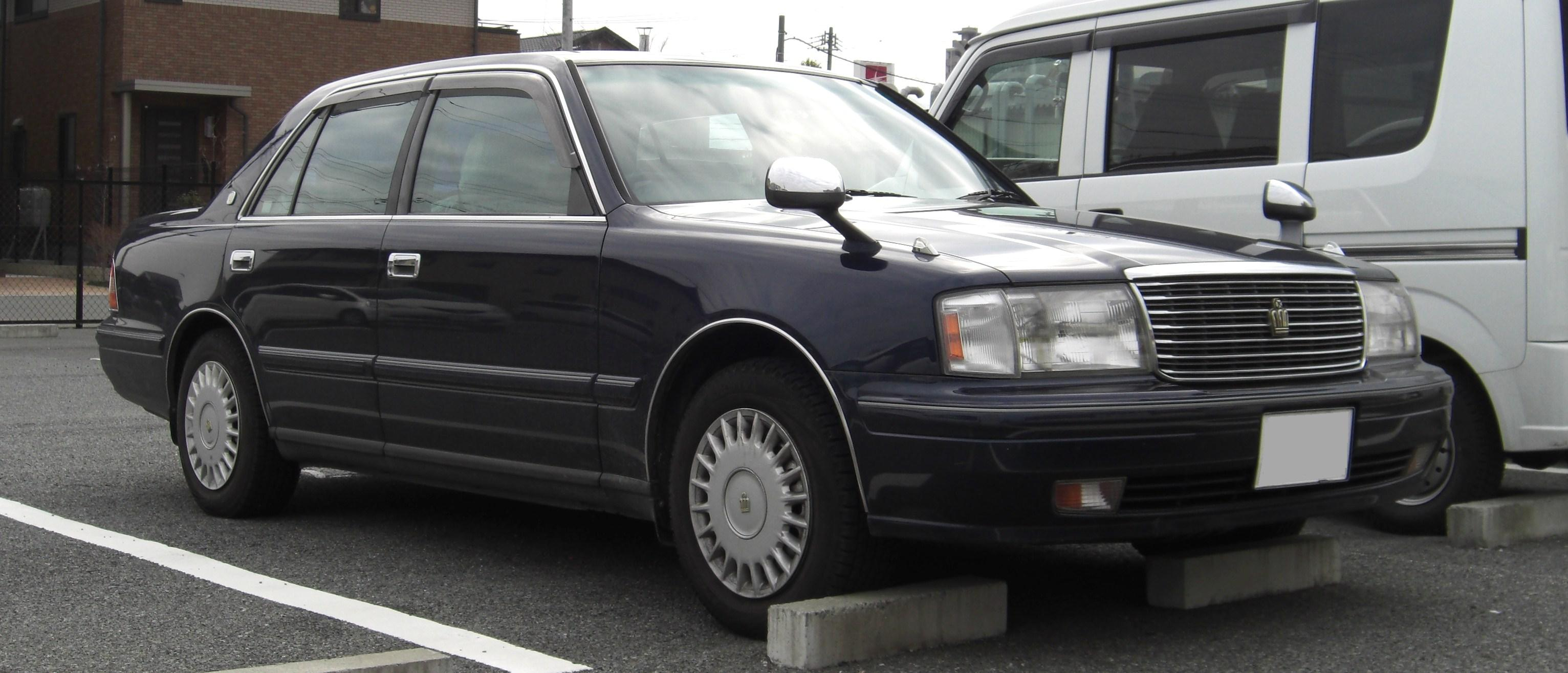 Toyota Crown